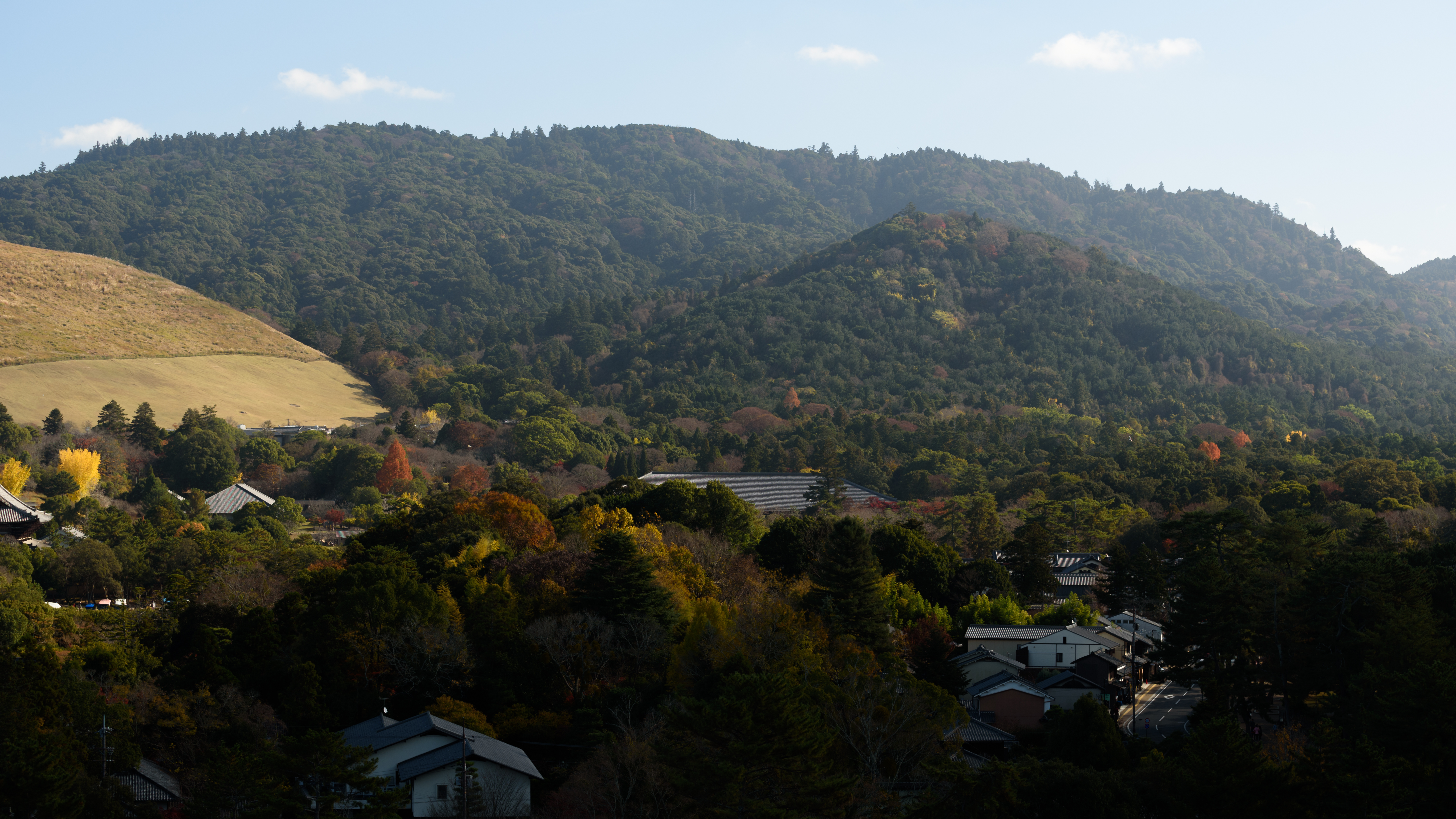 Mount Kasuga, include Mount Mikasa (Mikasa-yama) and Mount Hana (Hana-yama), in Nara, Nara prefecture, Japan.